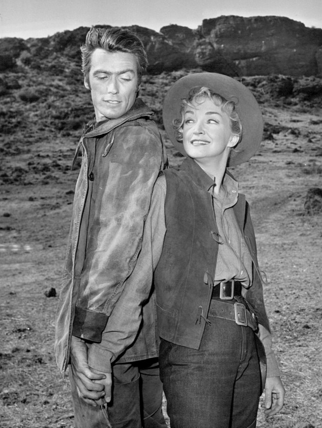 Photo of Clint Eastwood ans guest star Nina Foch from an episode of Rawhide.